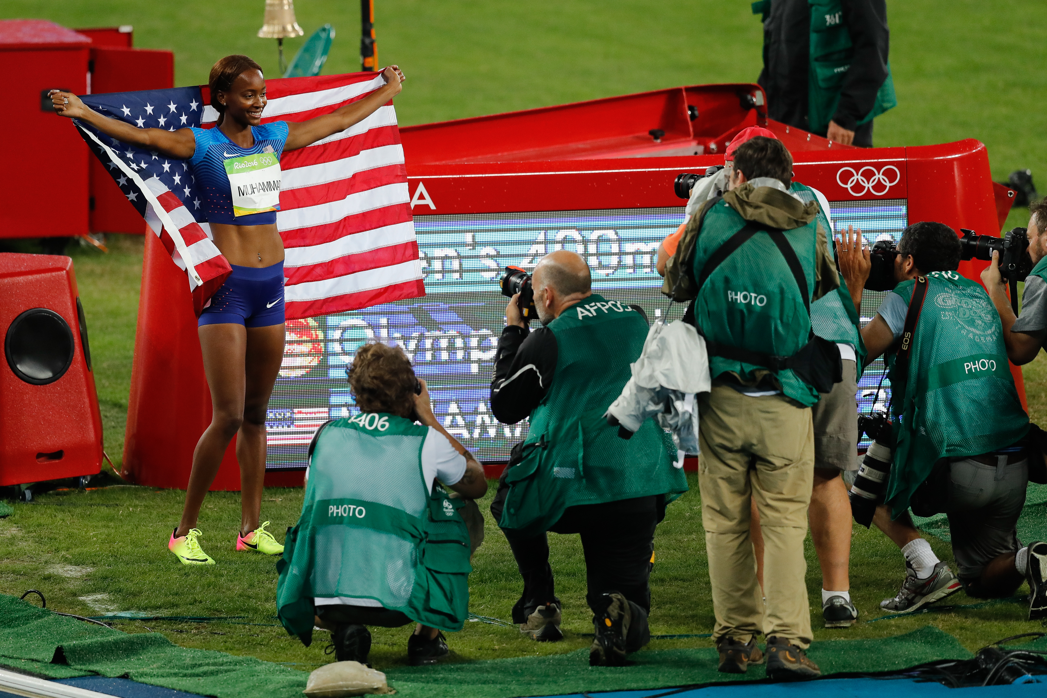 Rio de Janeiro - Dalilah Muhammad, dos Estados Unidos, vence os 400m com barreiras nos Jogos Rio 2016, no Estádio Olímpico. (Fernando Frazão/Agência Brasil)